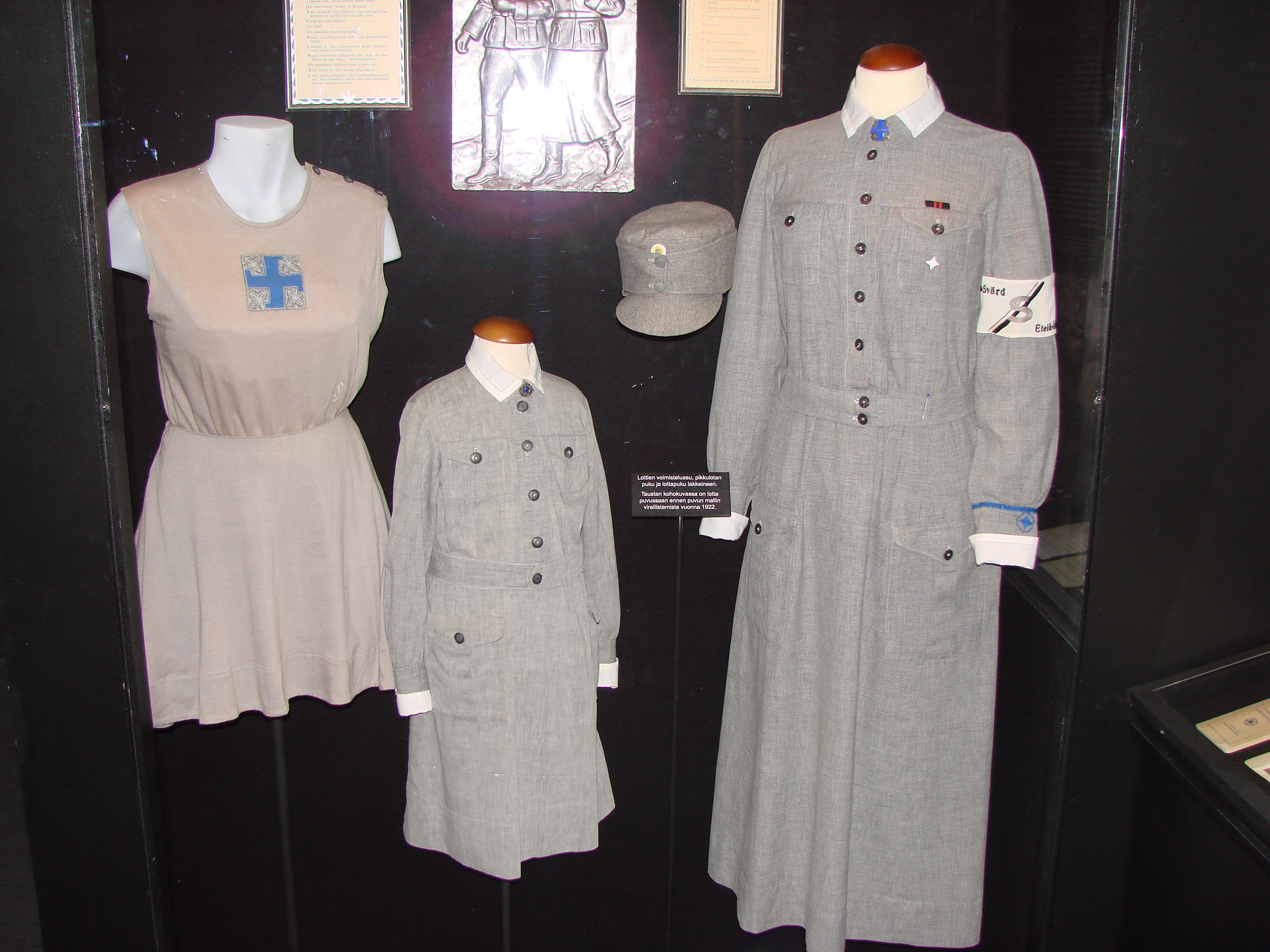 Lotta Svärd uniforms at the Finnish Artillery Museum, Hämeenlinna.